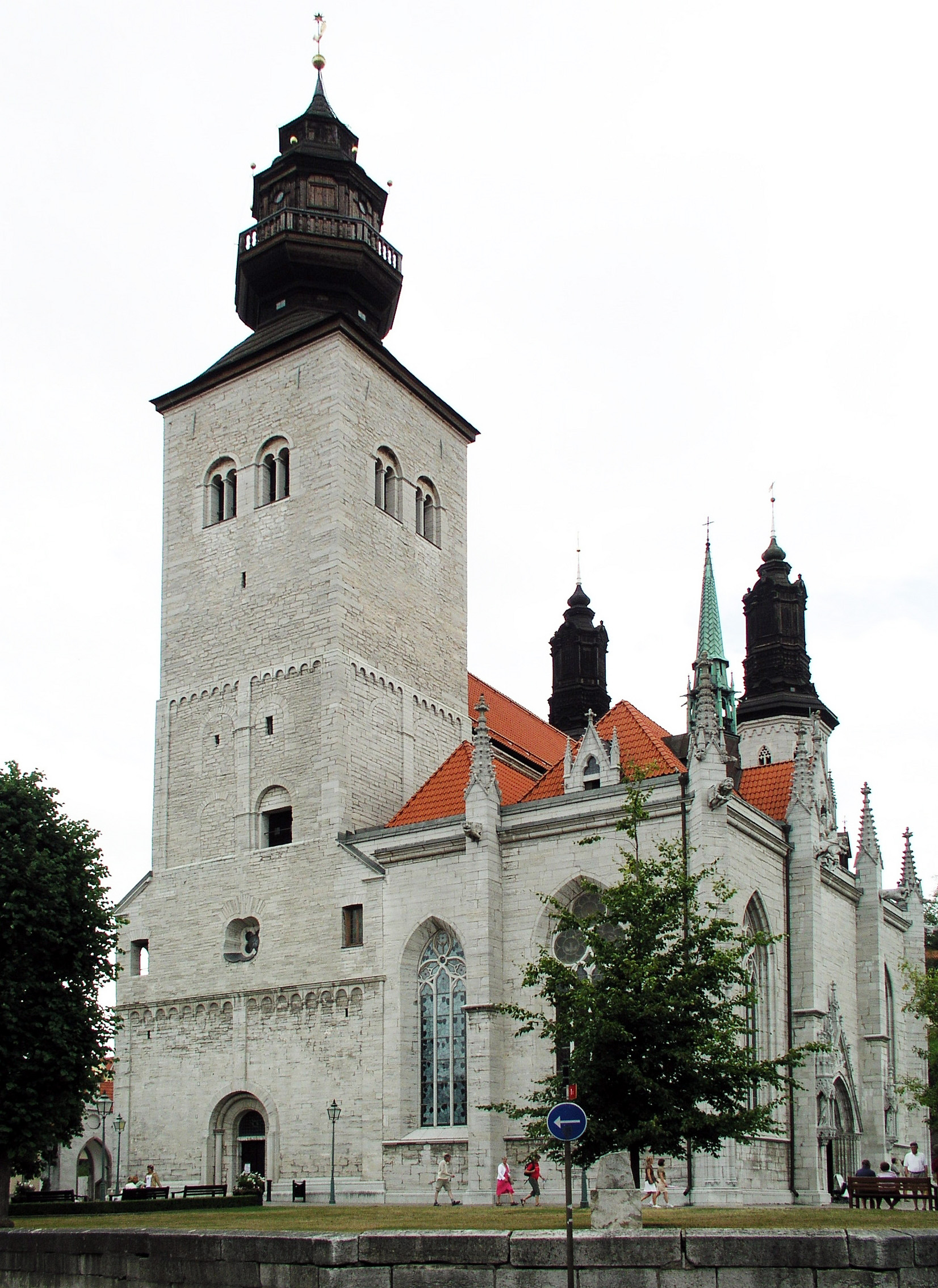 Cathedral Visby Sankta Maria.